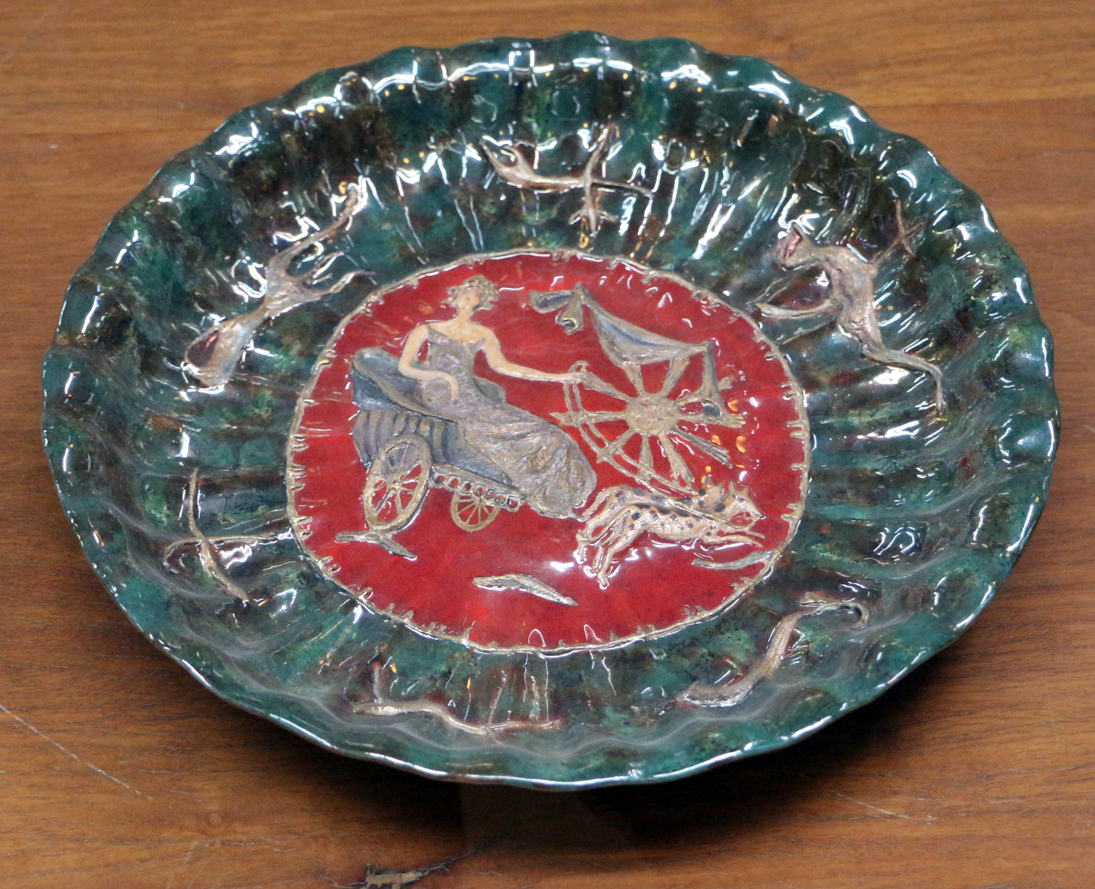 Raccolte d'arte applicate del Castello Sforzesco di Milano - Pottery